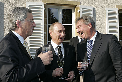 LUXEMBOURG. Before the beginning of the working dinner with Prime Minister of Luxembourg Jean-Claude Juncker.